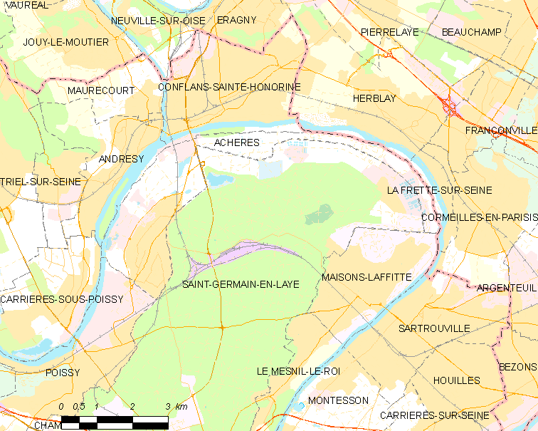 Map of French municipality Achères